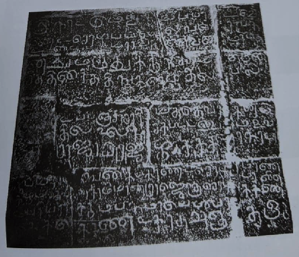 Vanavanmatevi-isvaram inscription 2, 11th century AD